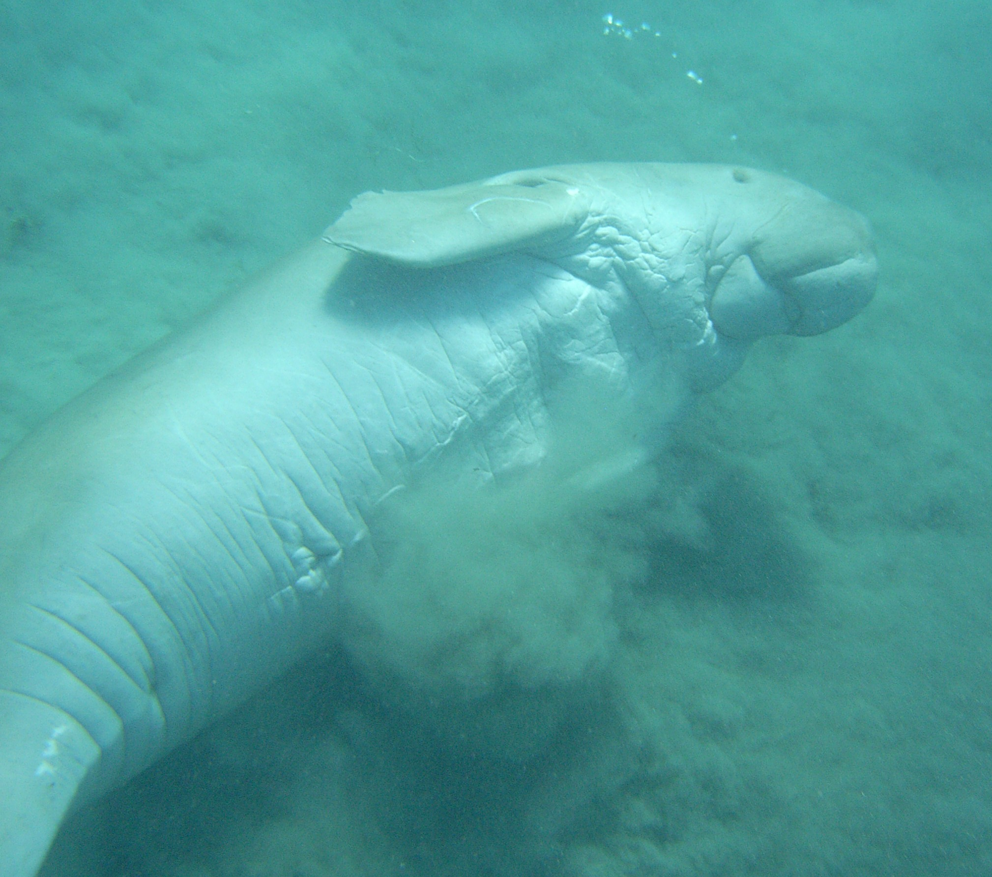 Underside of Dugong dugon, subject this appears to be kambos natural sleeping position. Abu Dabab Beach (Marsa Murena), Marsa Alam, Egypt